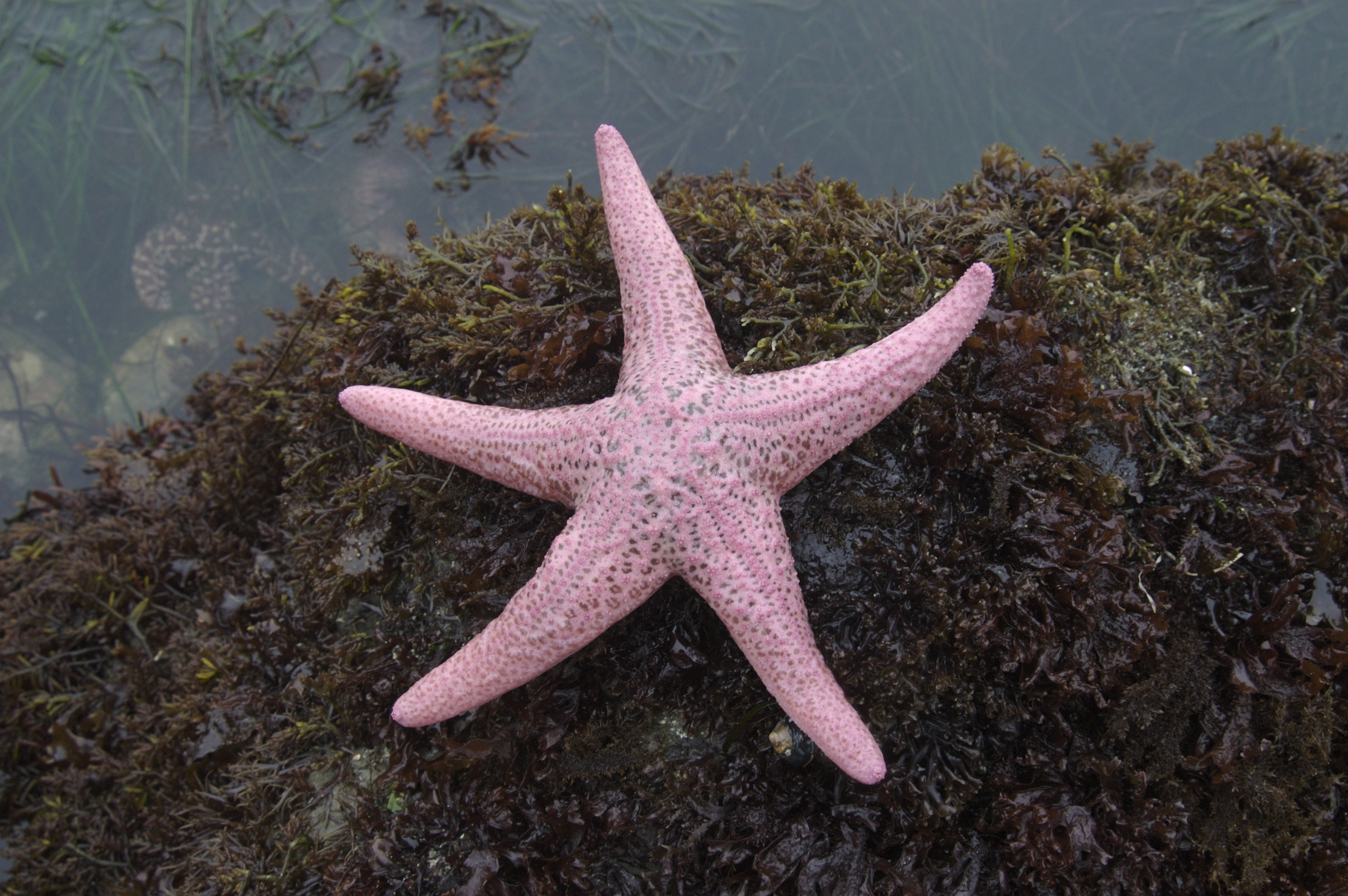 Pisaster brevispinus near Morro Bay, California, USA. "This star can range from pink to almost white."